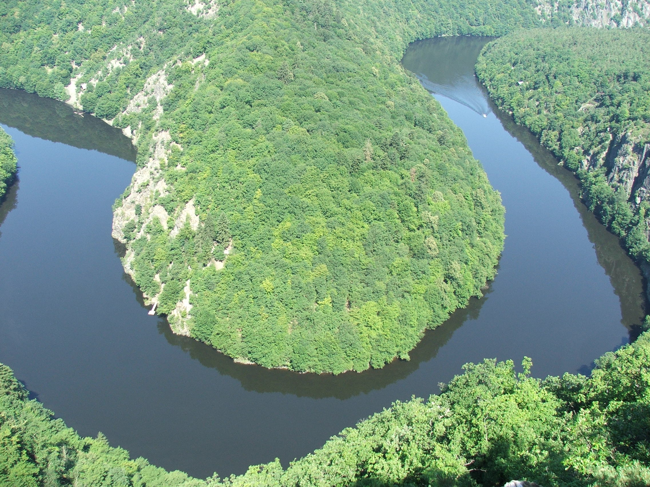 Amazonia Forest ? No, Štěchovice reservoir on Vltava river, Czechia